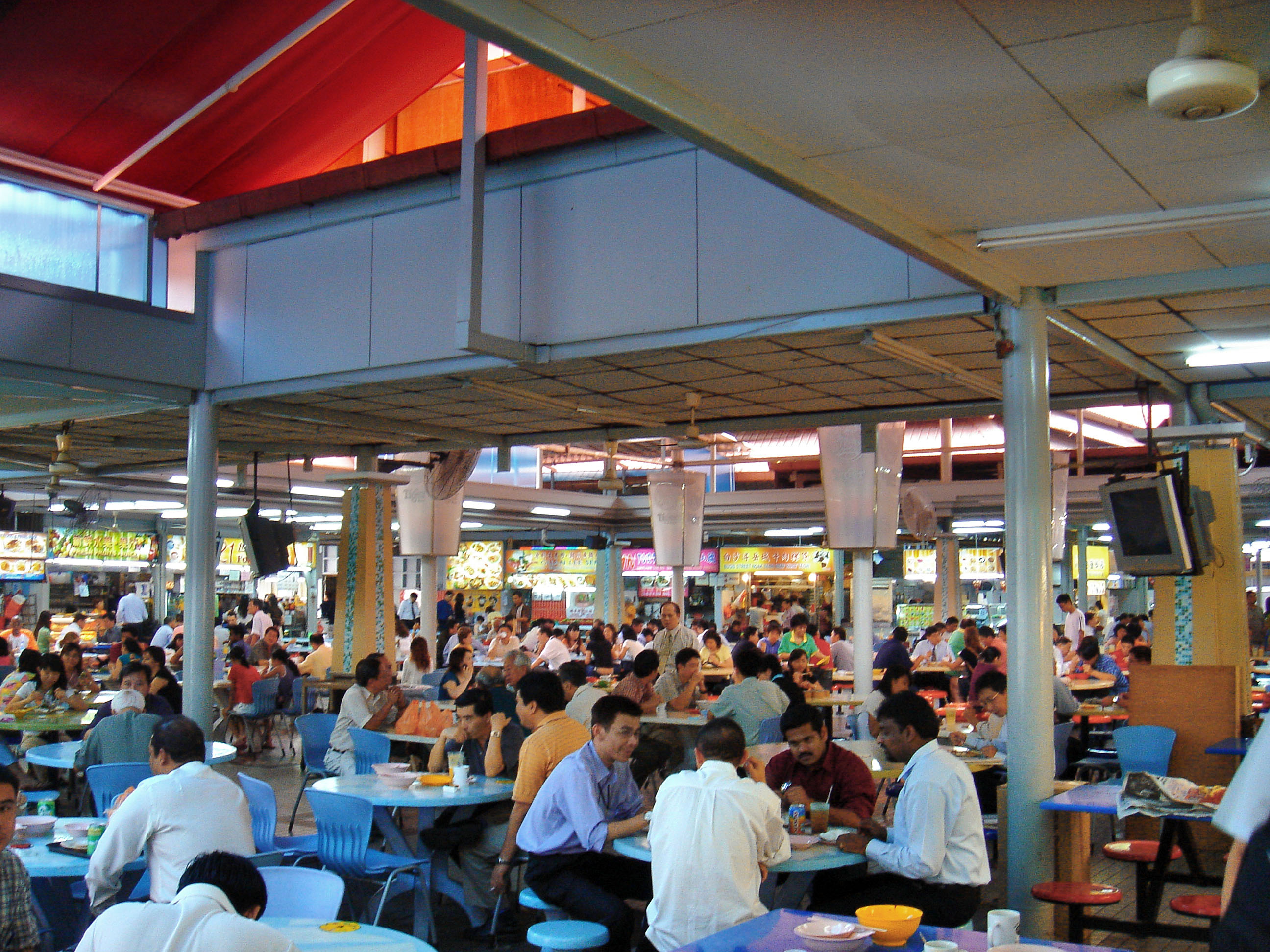 Enhancement of LavendarFC.JPG